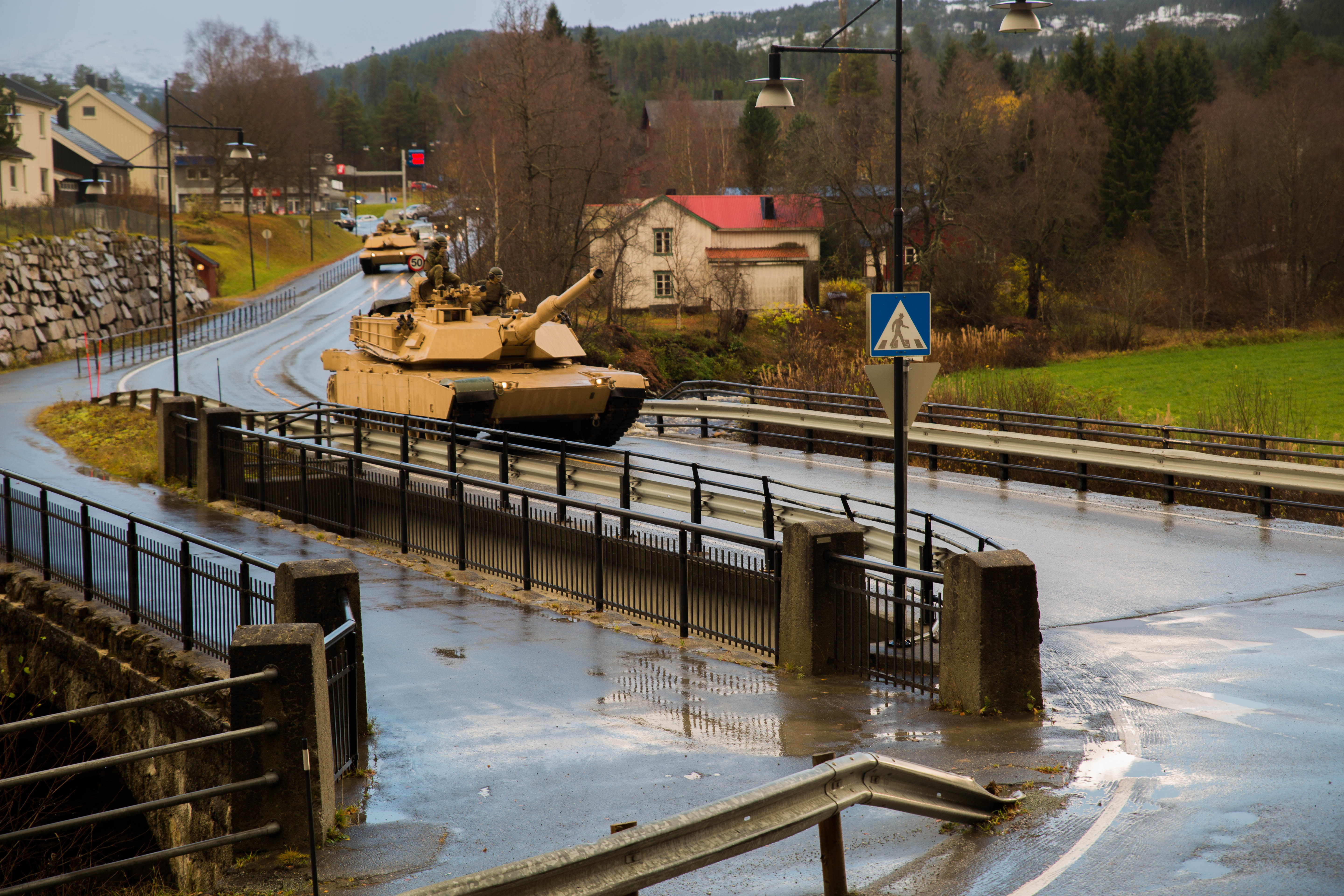 U.S. Marines with 2nd Tank Battalion, 2nd Marine Division, drive a M1A1 Abrams tank during the Combat Enhancement Training/Force Integration Training phase of Excercise Trident Juncture 18 near Storås, Norway, Oct. 25, 2018. Trident Juncture is a multinational NATO exercise that enhances professional relationships and improves overall coordination with Allied and partner nations.